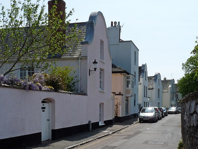 Dutch Houses, Topsham The following information is given on a notice board at Topsham Quay. The 'Dutch Houses', so called because of their curved gable ends, form a group towards the southern end of The Strand. Their builders were undoubtedly influenced by the trading connection with Holland in the 17th century. Construction varies, but many are built with Dutch bricks brought back from Holland as ballast in the ships. Although each house is different, they all follow the general plan of being narrow, with their gable end on the street. Collectively they give the street its unique character and form one of the most architecturally important streets in Devon.